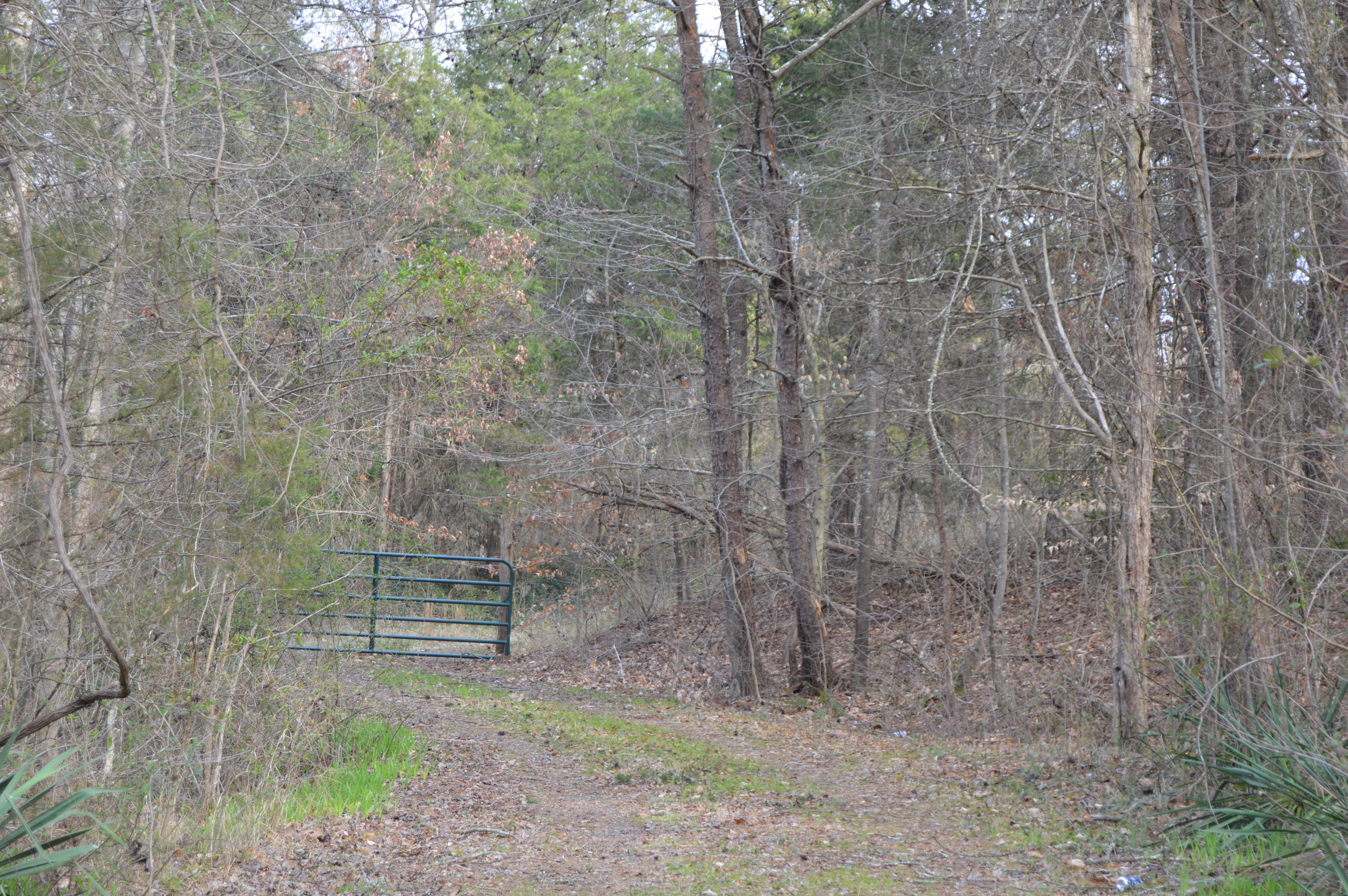 Driveway to the Tinsley Tavern property, located at 2791 Elk Island Road northeast of Columbia in Goochland County, Virginia, United States. The property is listed on the National Register of Historic Places.